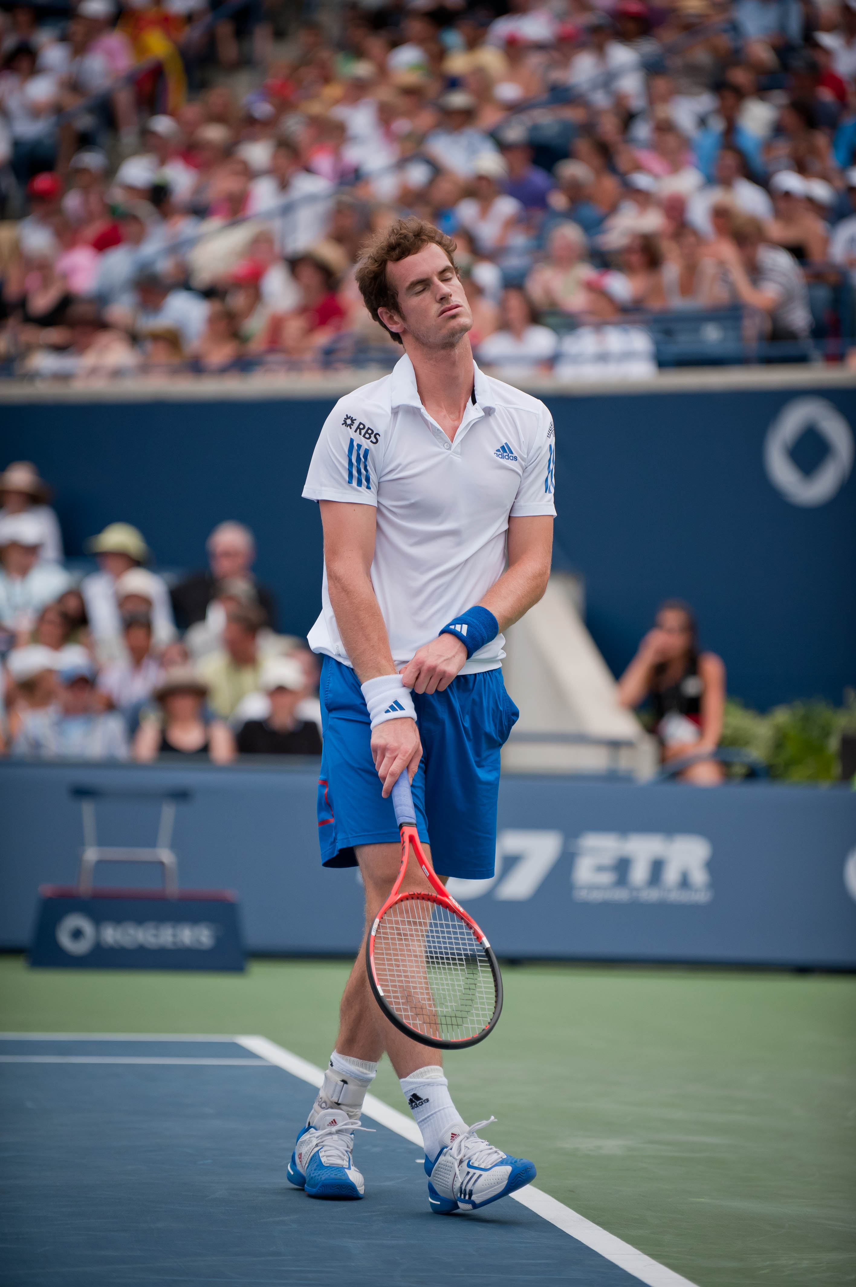 Andy Murray lets out a sigh when playing Nadal.